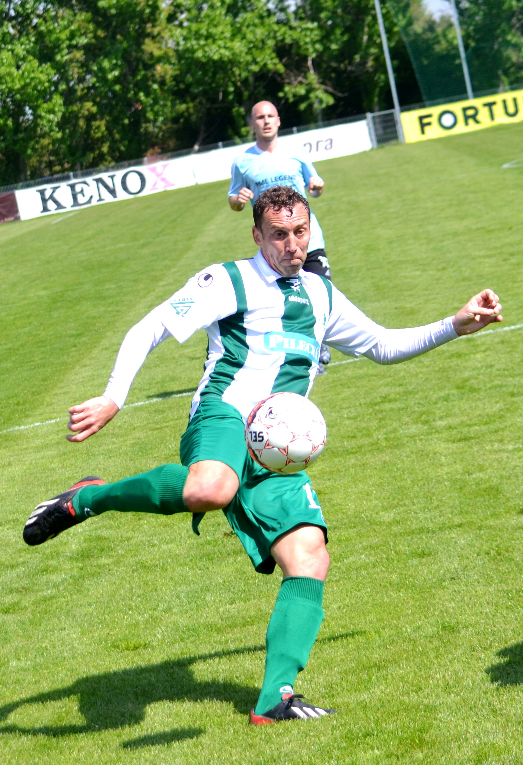 Jan Šimák, Czech footballer